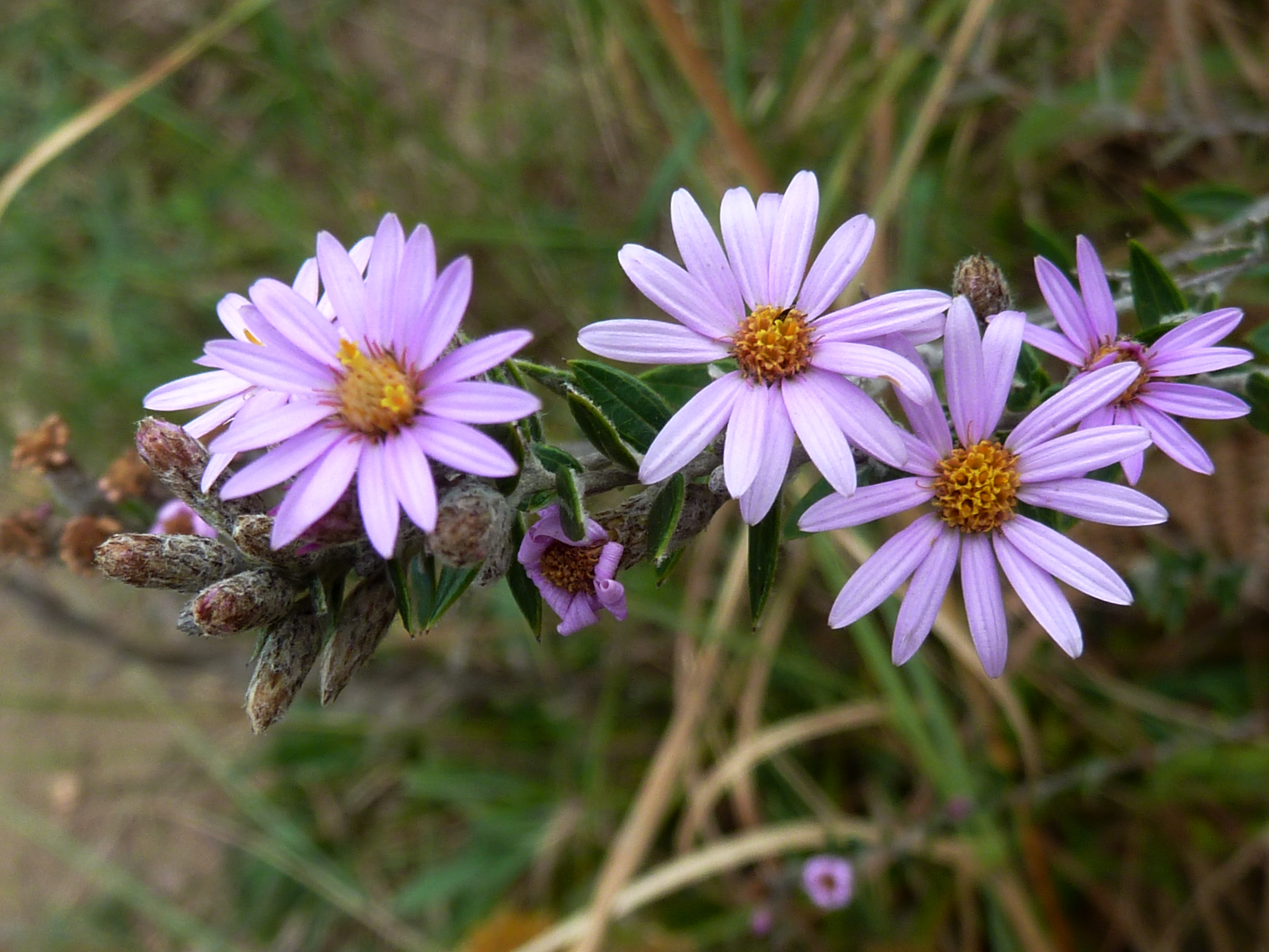 Bushman's tea growing in sourveld of Krantzkloof Nature Reserve, KwaZulu-Natal